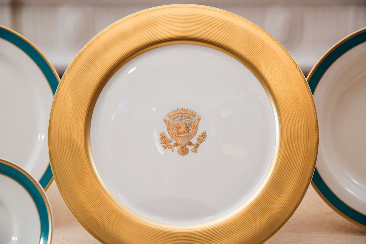 Service plate of the Obama china service on April 27, 2015. Each setting of the new china contains 11 pieces, and there are 320 settings. Most of the pieces have an edge of textured gold, a band of color named "Kailua blue" (inspired by the color of the sea off President Obama's home state of Hawaii), and a narrow inner band of gold. Pickard China of Illinois manufactured the porcelain. The service plate (or "charger") is designed to act as a placeholder. It remains on the table, and other porcelain is placed atop it. The Obama service plate is different from the rest of the service. It features a patterned gold gilt edge and a broad, fluted gold gilt rim. The Presidential Coat of Arms is centered on the plate. Surrounding the service plate are first course, second course, and dessert plates from the same service.